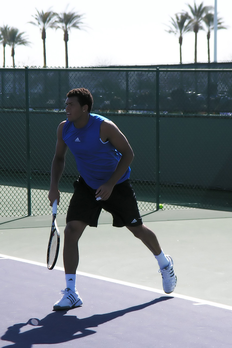 Jo-Wilfried Tsonga lost a lot of weight for the 2008 season.